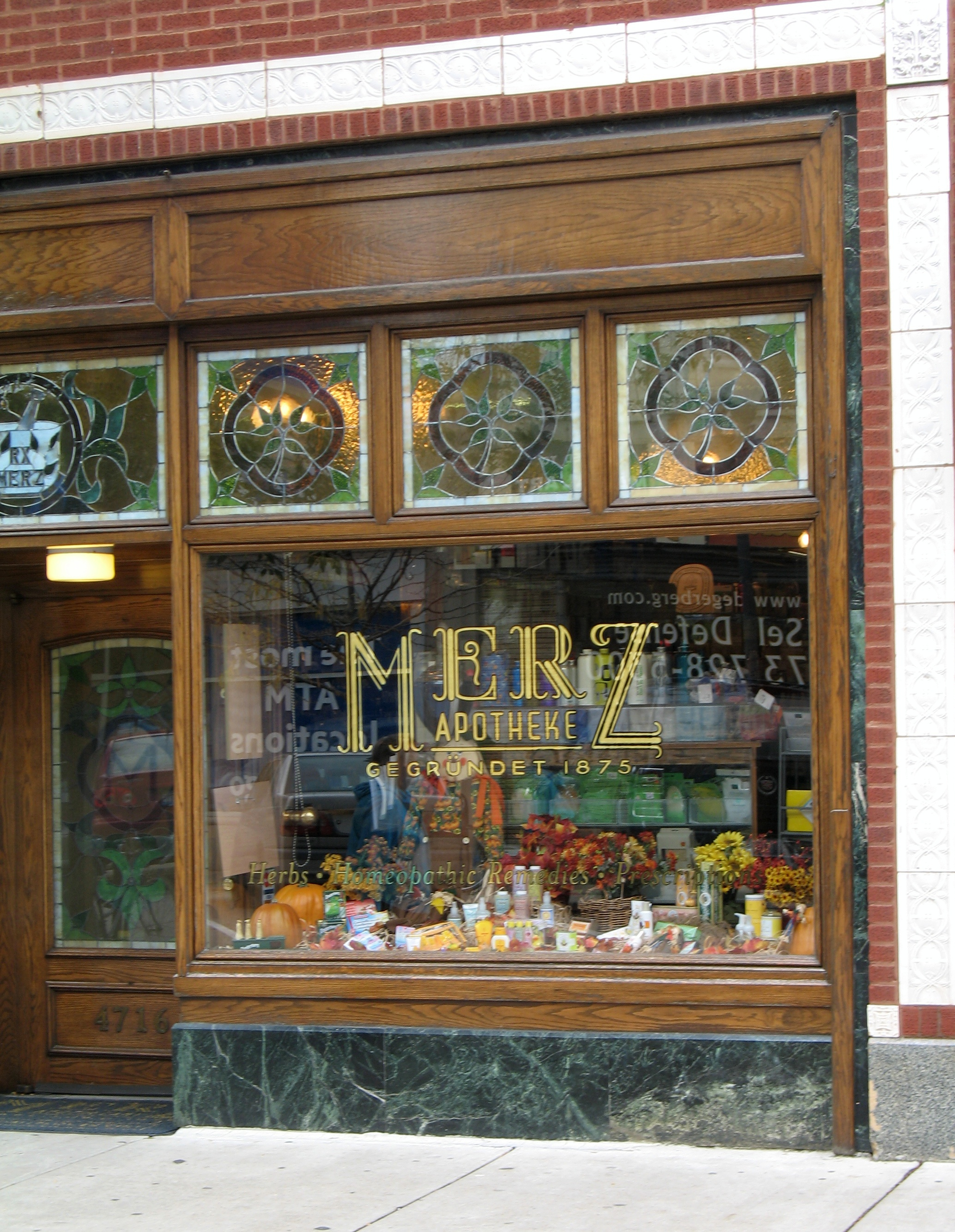 Shop window of an old pharmacy (Merz Apothecary) founded in 1875 by immigrants from Germany, in Lincoln Square neighborhood of Chicago, IL